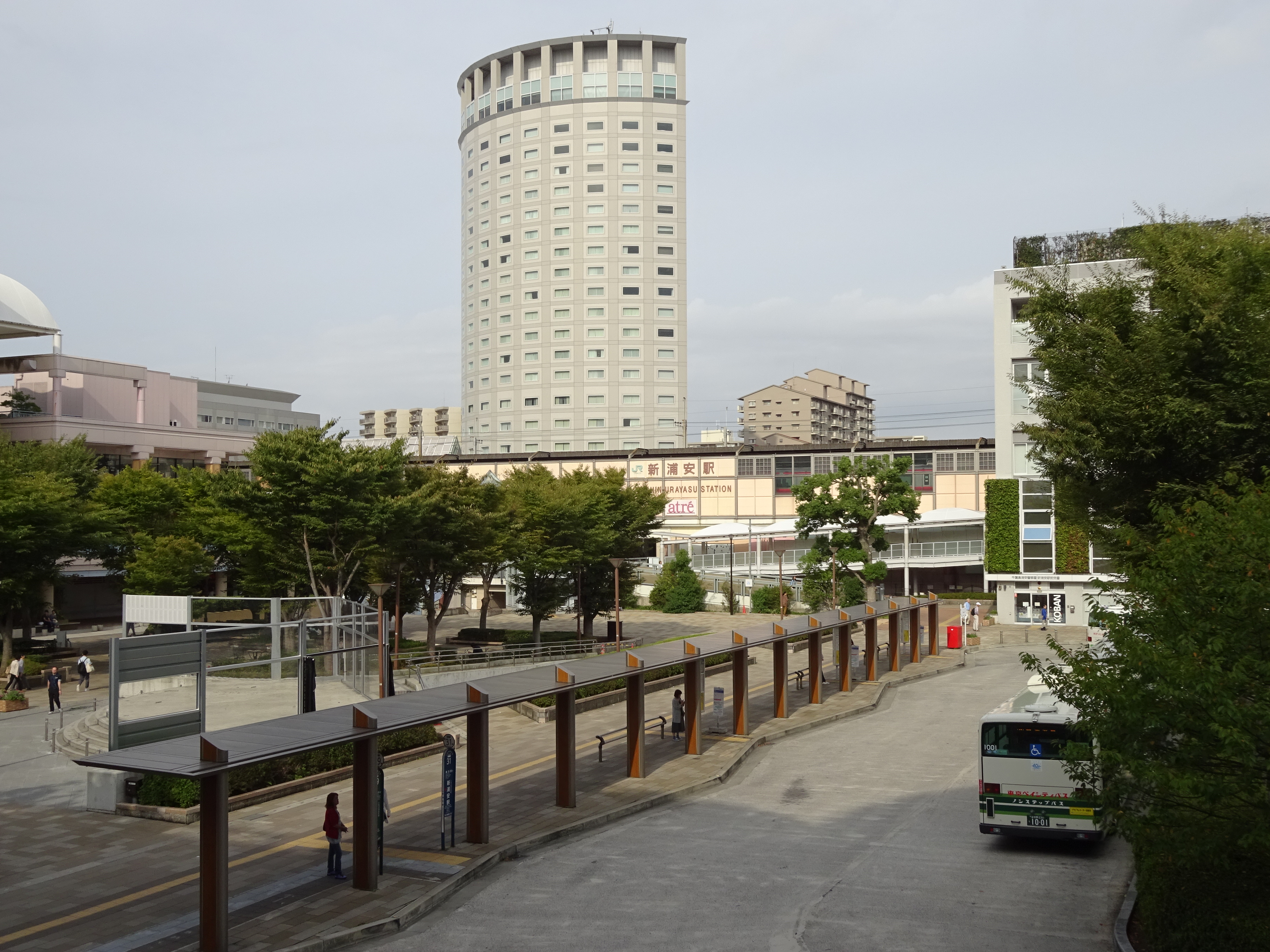 South entrance of Shin-Urayasu Station